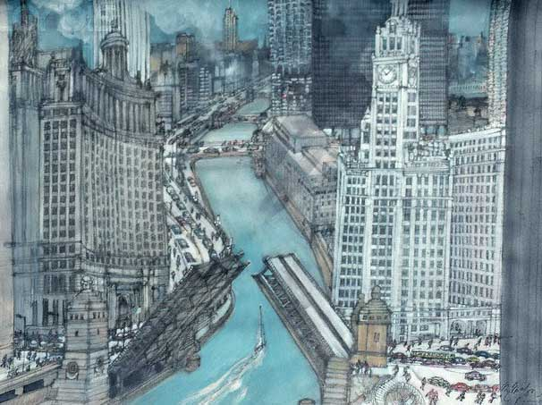 Chicago River Bridges saluting a single passing sailboat.